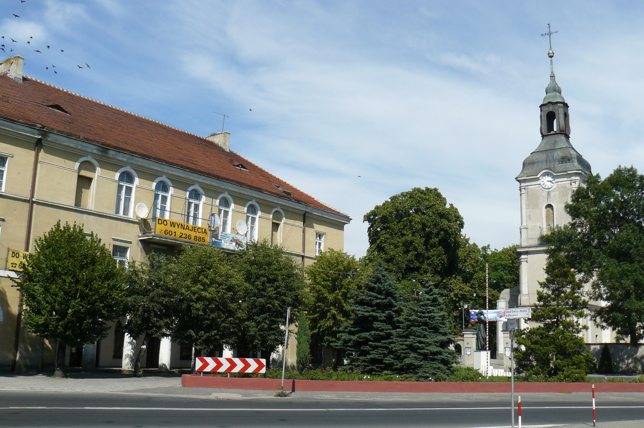 Blaszki PL, Market Square.